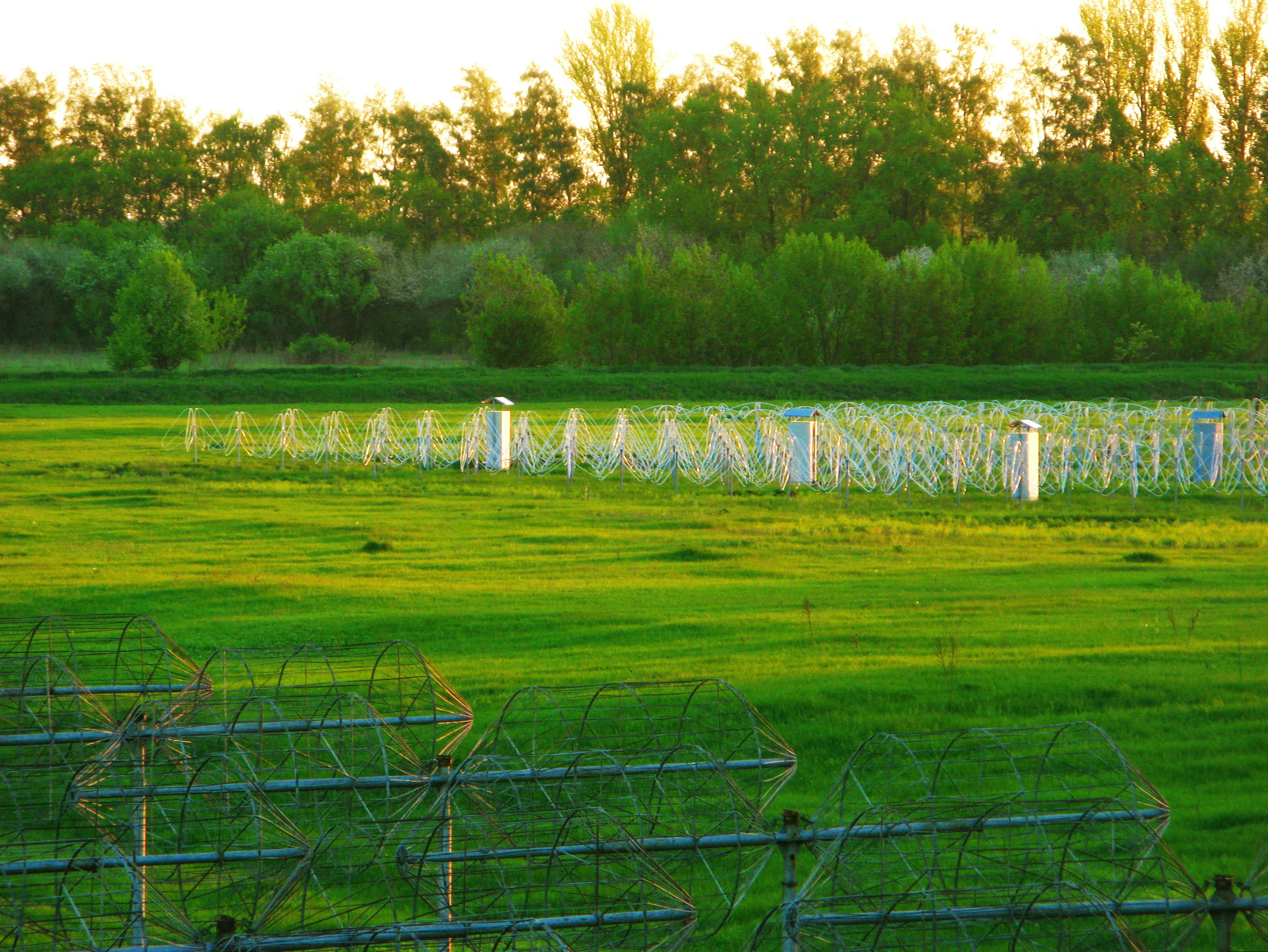 Cluster of Giant Ukrainian RadioTelescope (GURT) subarrays nearby of Nothern arm of UTR-2 radio telescope. S. Y. Braude Radio Astronomical Observatory, Kharkiv oblast, Ukraine.